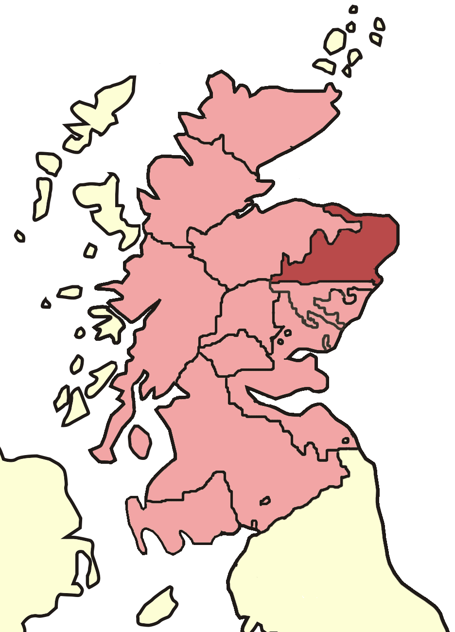 Diocese of Scotland in the reign of king David I. Based on William Forbes Skene's map of 1887.